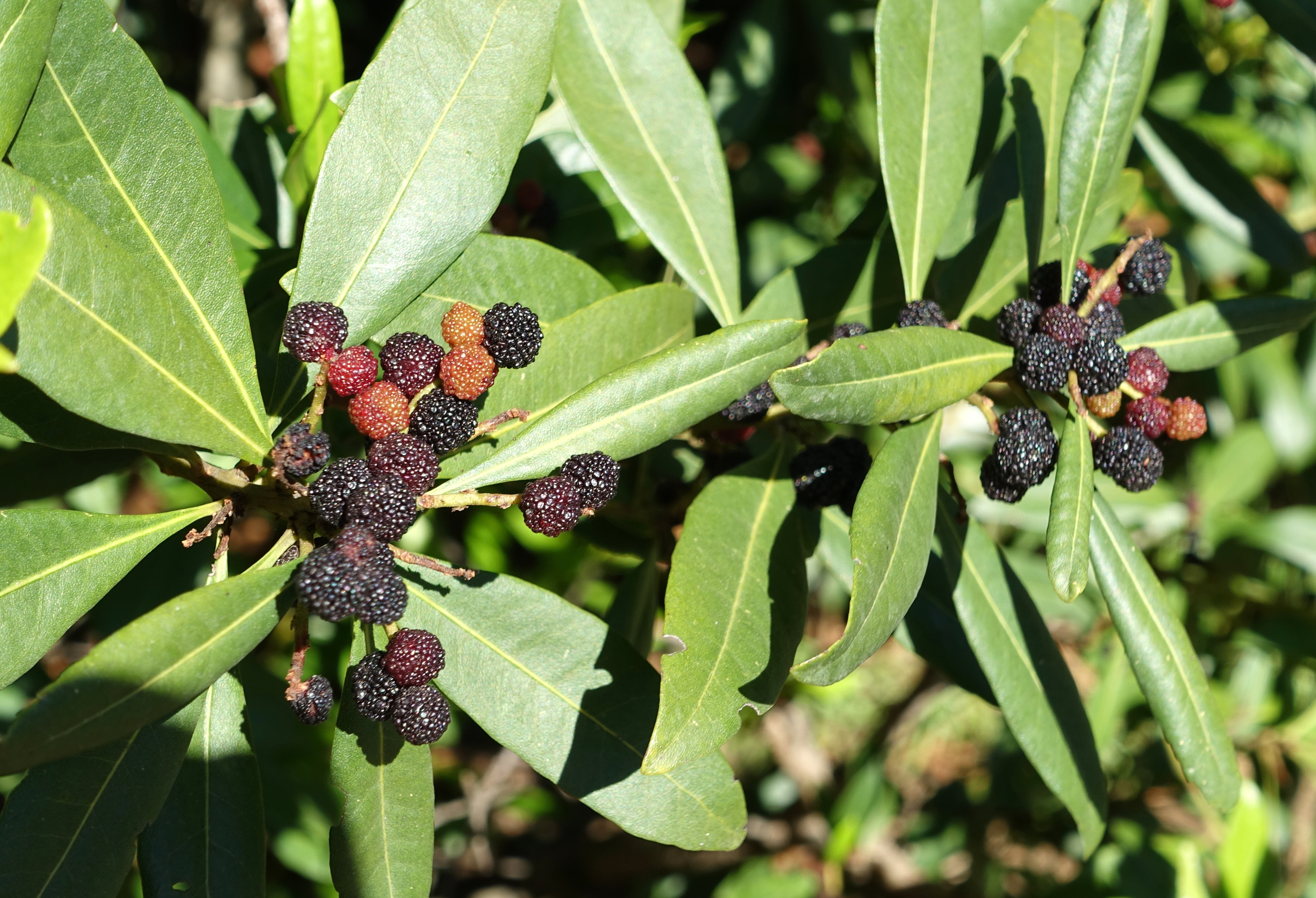 Botanical specimen in the Jardín Botánico de Barcelona - Barcelona, Spain.